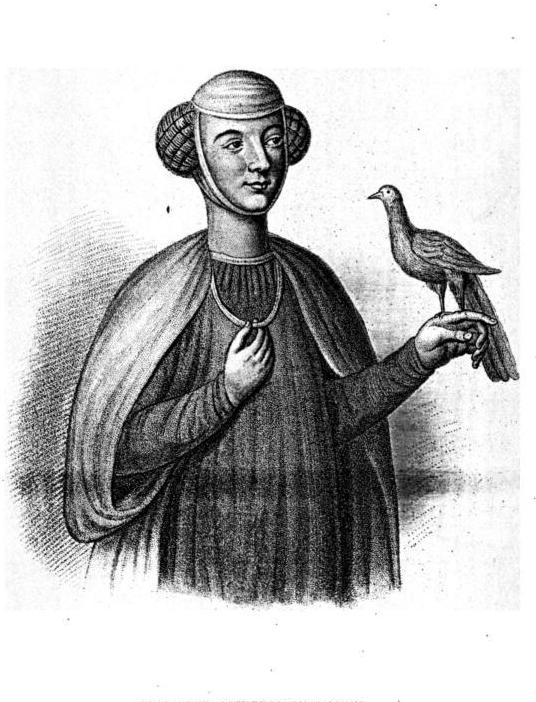 Elizabeth of Rhuddlan